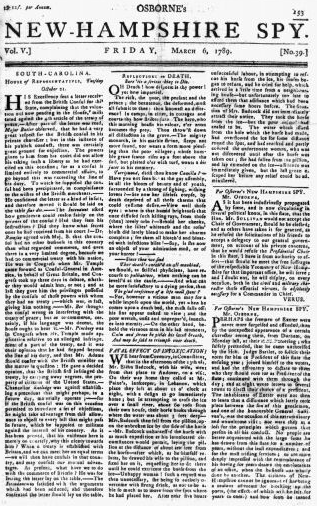 Osborne's New-Hampshire Spy; Date: 03-06-1789; (Portsmouth, New Hampshire)